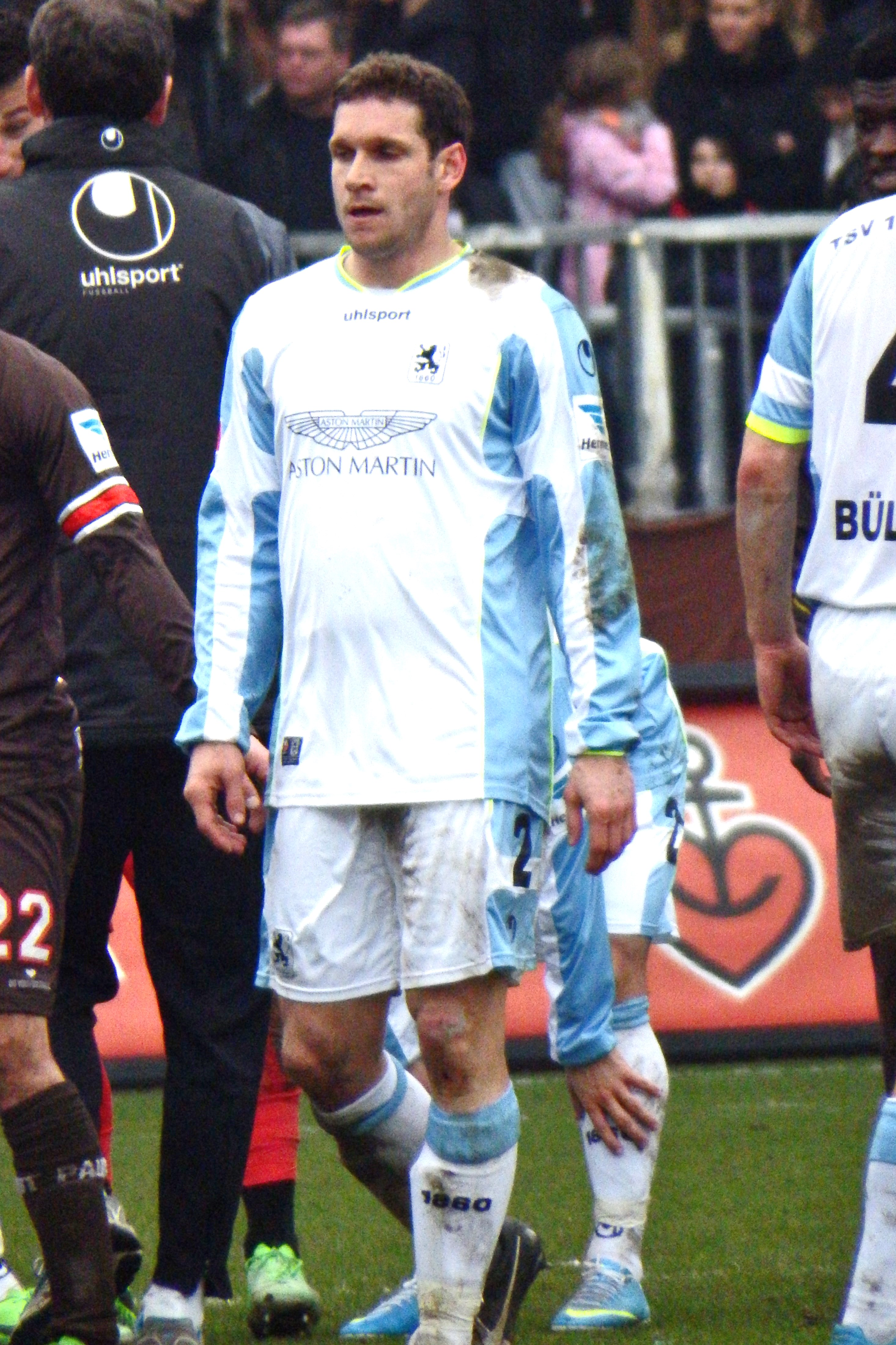 Moritz Volz as Player of TSV 1860 München